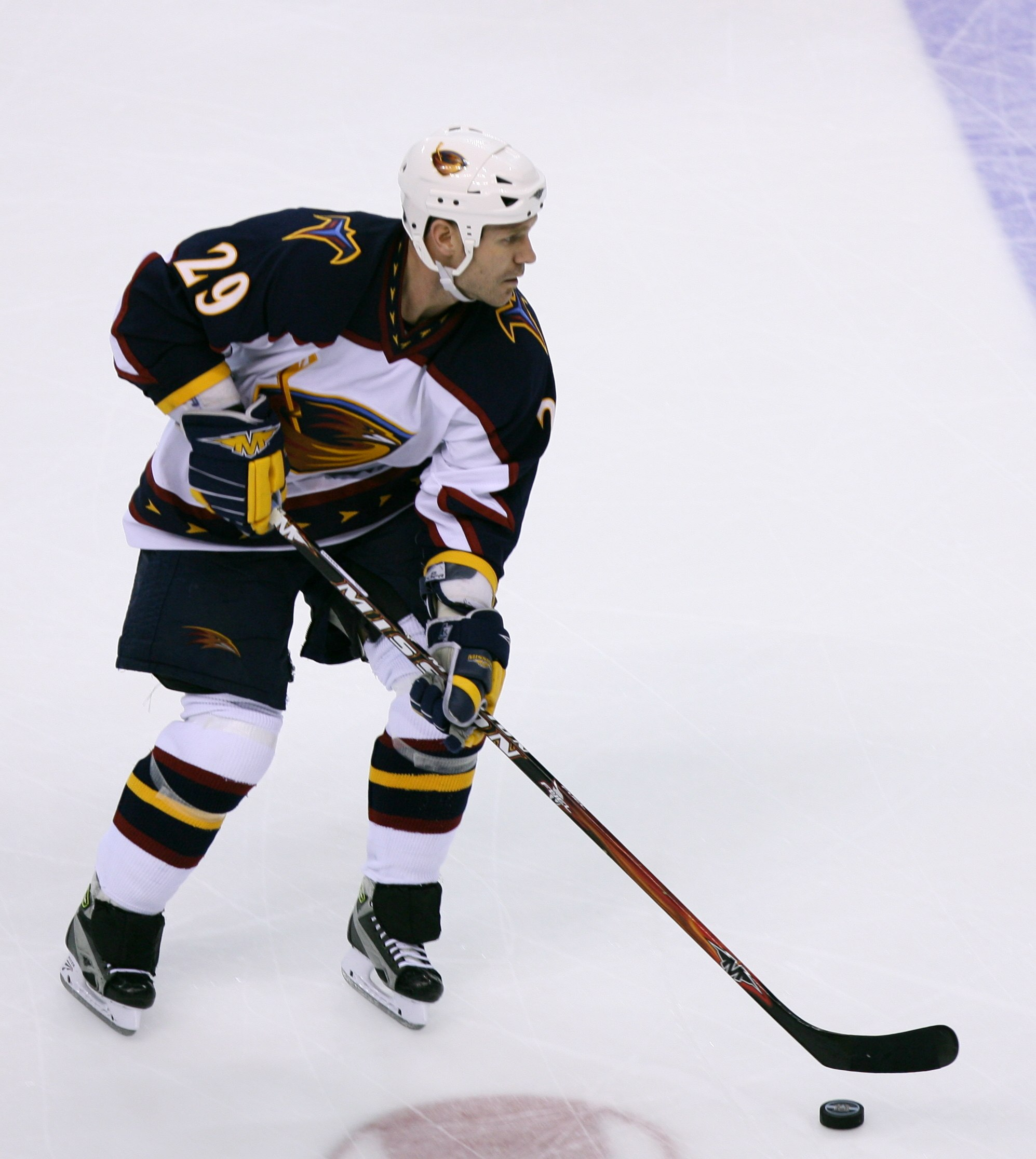 Brad Larsen in Atlanta Thrashers jersey.